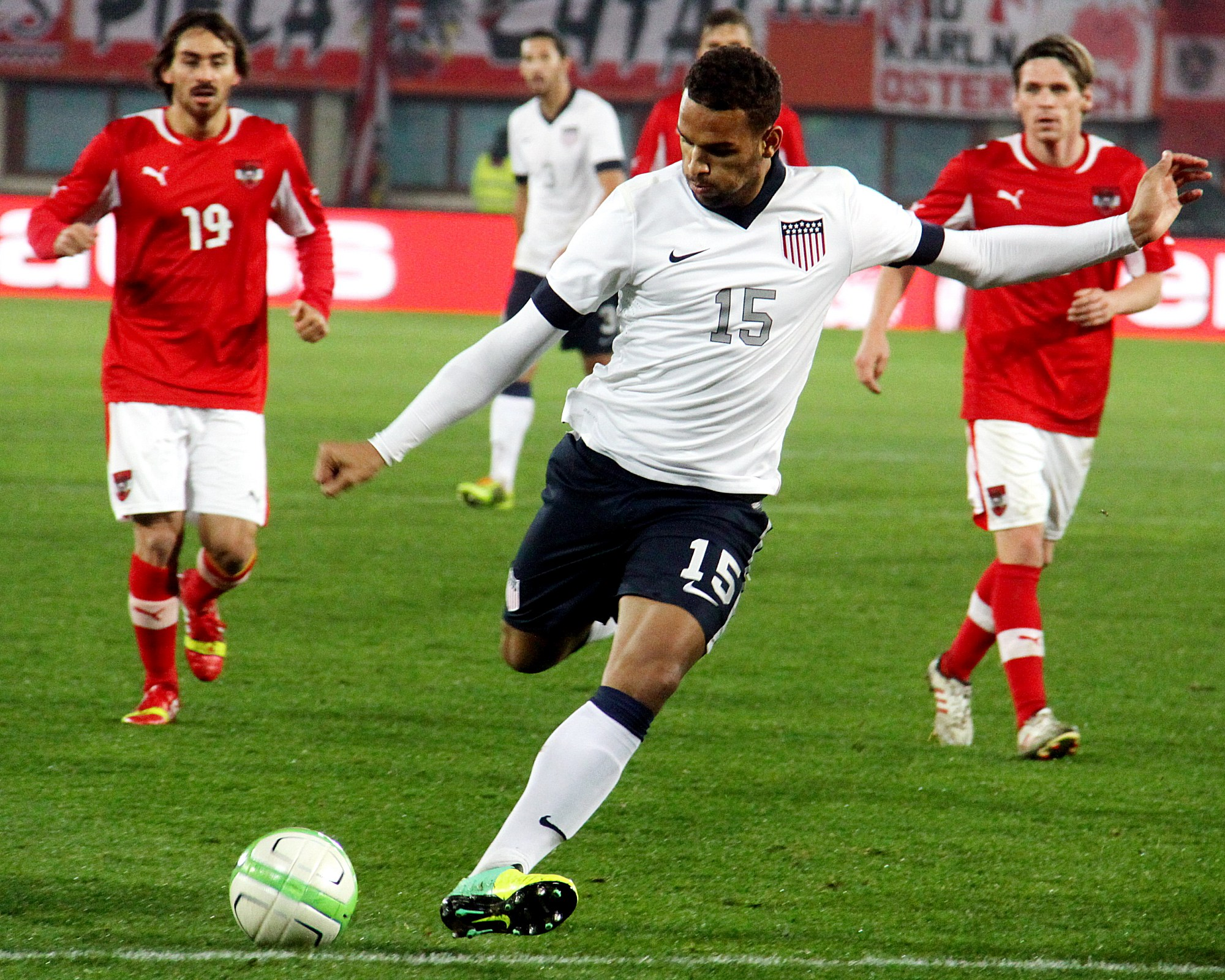 Friendly-match Austria vs. USA (1:0) in the Ernst-Happel-Stadion in Vienna at 2013-03-22. – The photo shows from left to right Veli Kavlak, Terrence Boyd and Christoph Leitgeb.